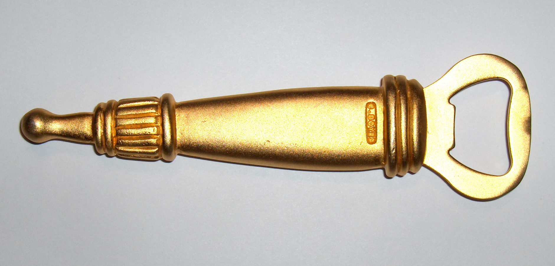 Gold plated beer bottle opener from the A&E TV series A Nero Wolfe Mystery, purchased August 19, 2002, from the Nero Wolfe Auction run by NW Production Services, Inc., Toronto